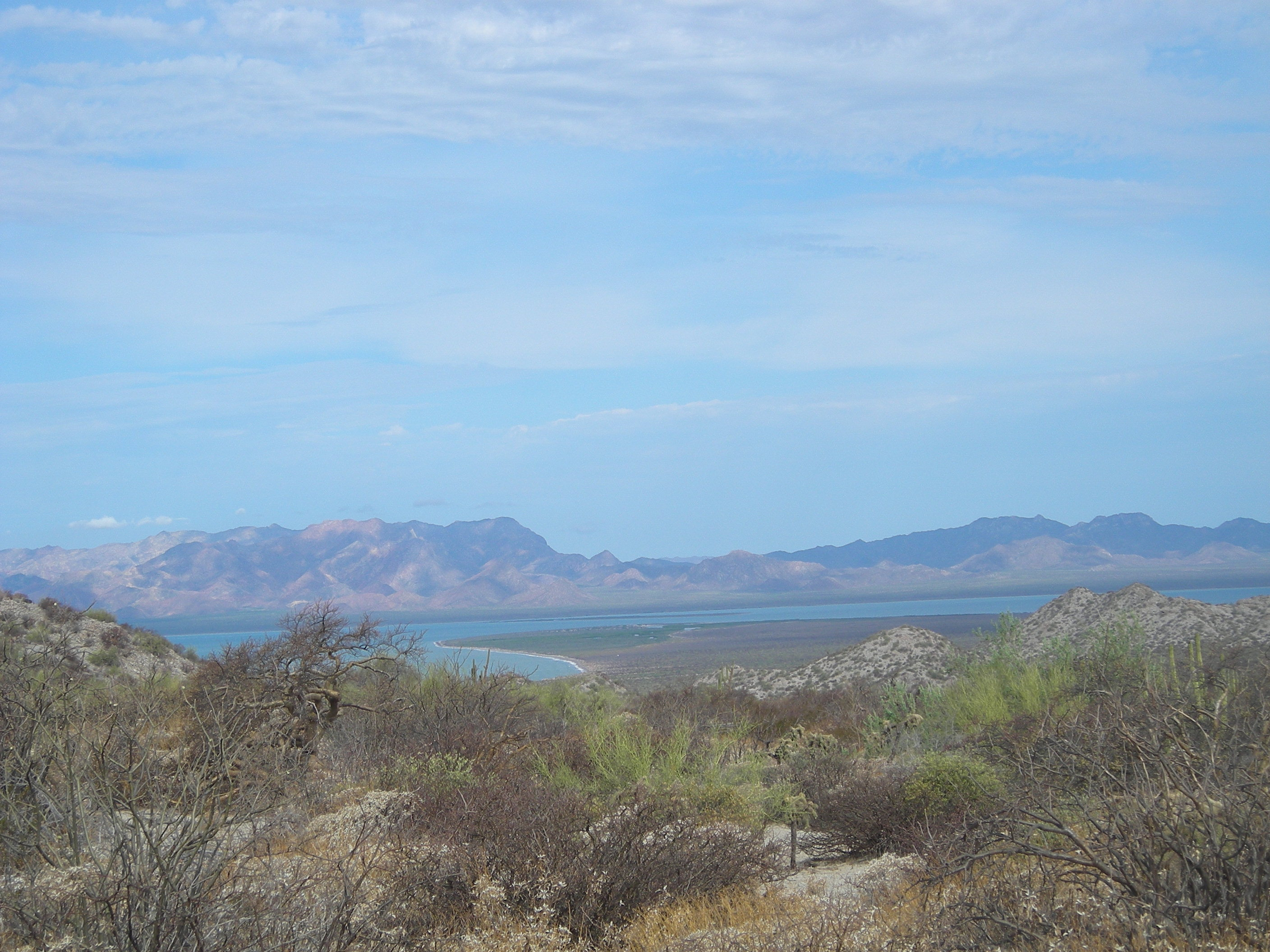 Punta Santa Rosa and Infiernillo channel with Tiburon Island in background, Sonora, Mexico